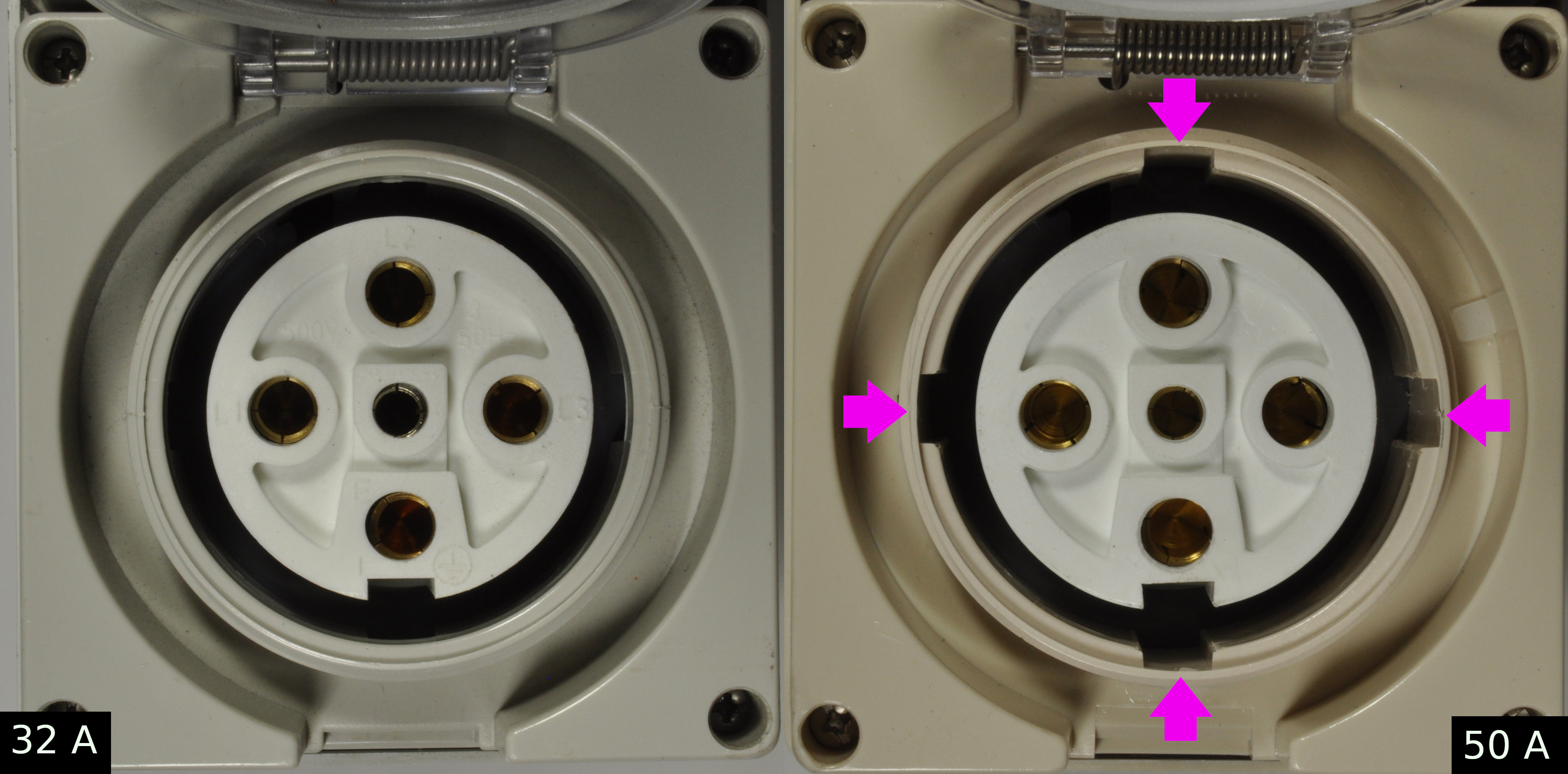 The 32 A, 40 A and 50 A three-phase industrial plugs and sockets used in Australia are interchangeable, where a plug can be inserted into a socket of equal or lesser rating. The purple arrows illustrate the keying tabs which allow a 50 A plug to be inserted into a 50 A socket, but not a 32 A socket. The lack of these tabs on the 32 A socket allows it to be inserted into both sockets. The 40 A socket (not shown here) has only some of the four keying tabs shown on the 50 A socket here.